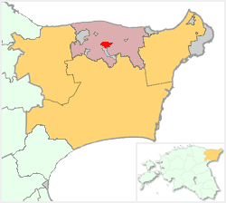 Location map of Jõhvi town, Estonia. This image was created by Senzeichi.